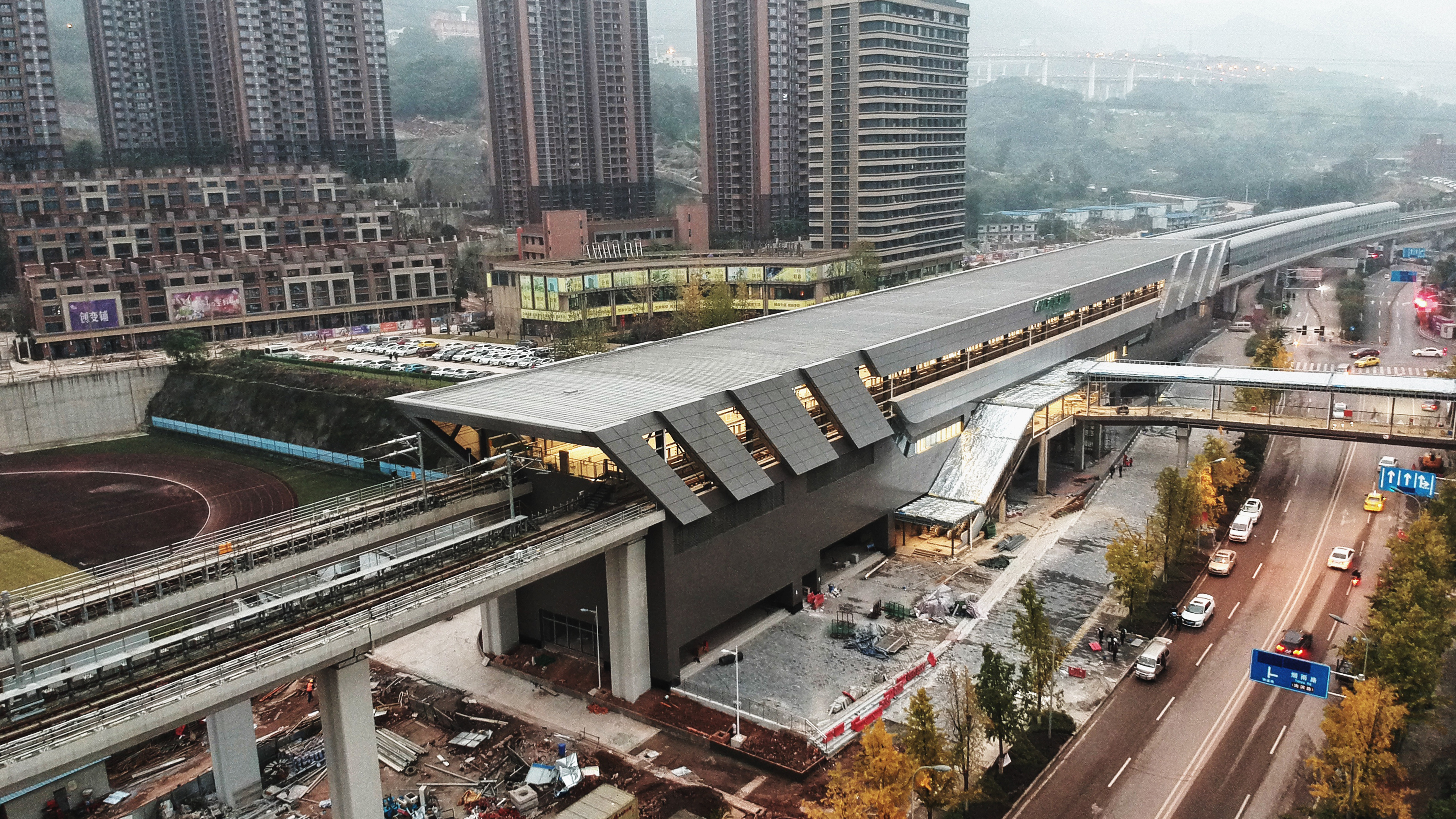 在建环线海棠溪站